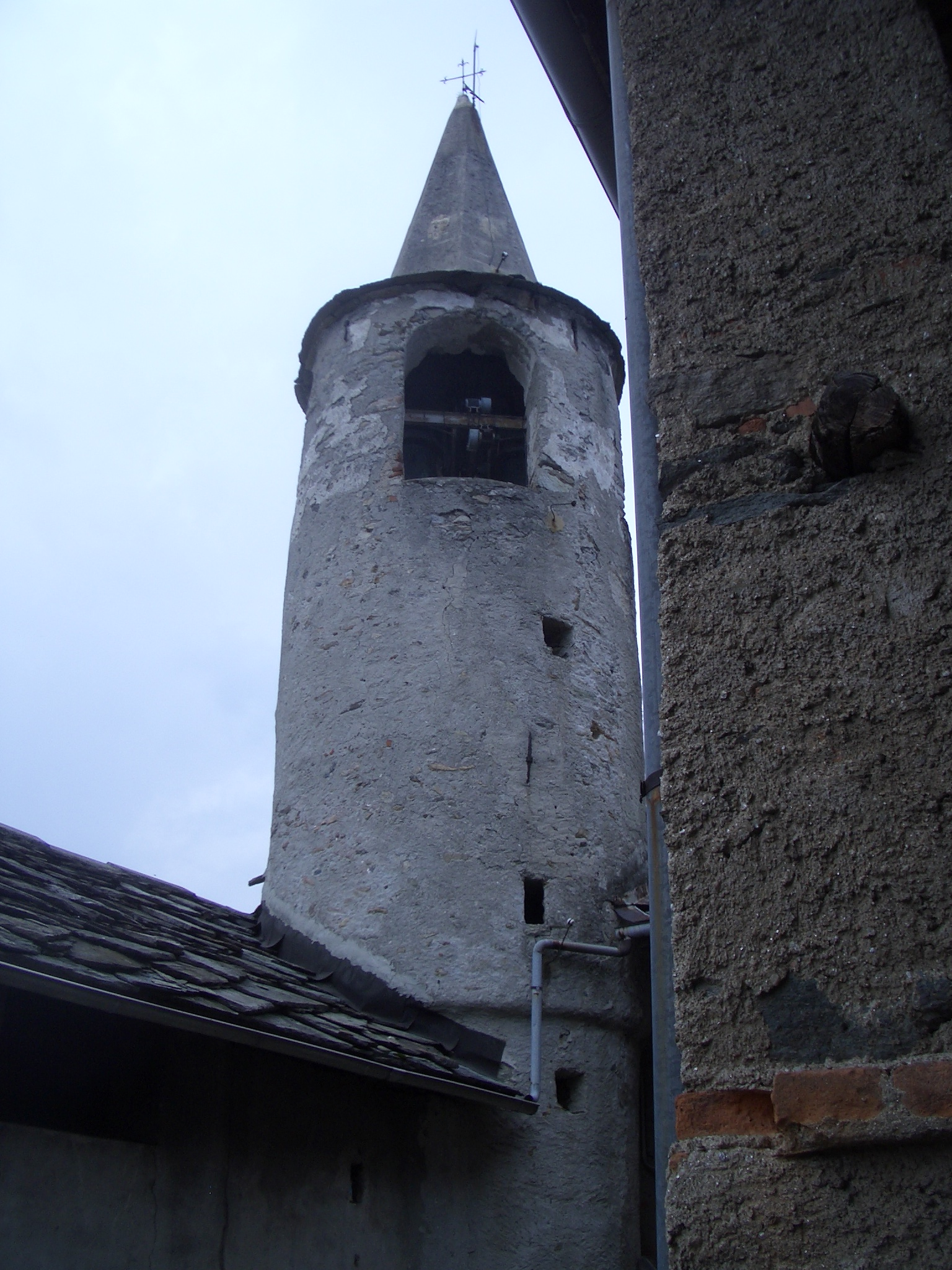 “Campanile of Santa Maria in Doblazio church”, Pont Canavese, Turin, Italy